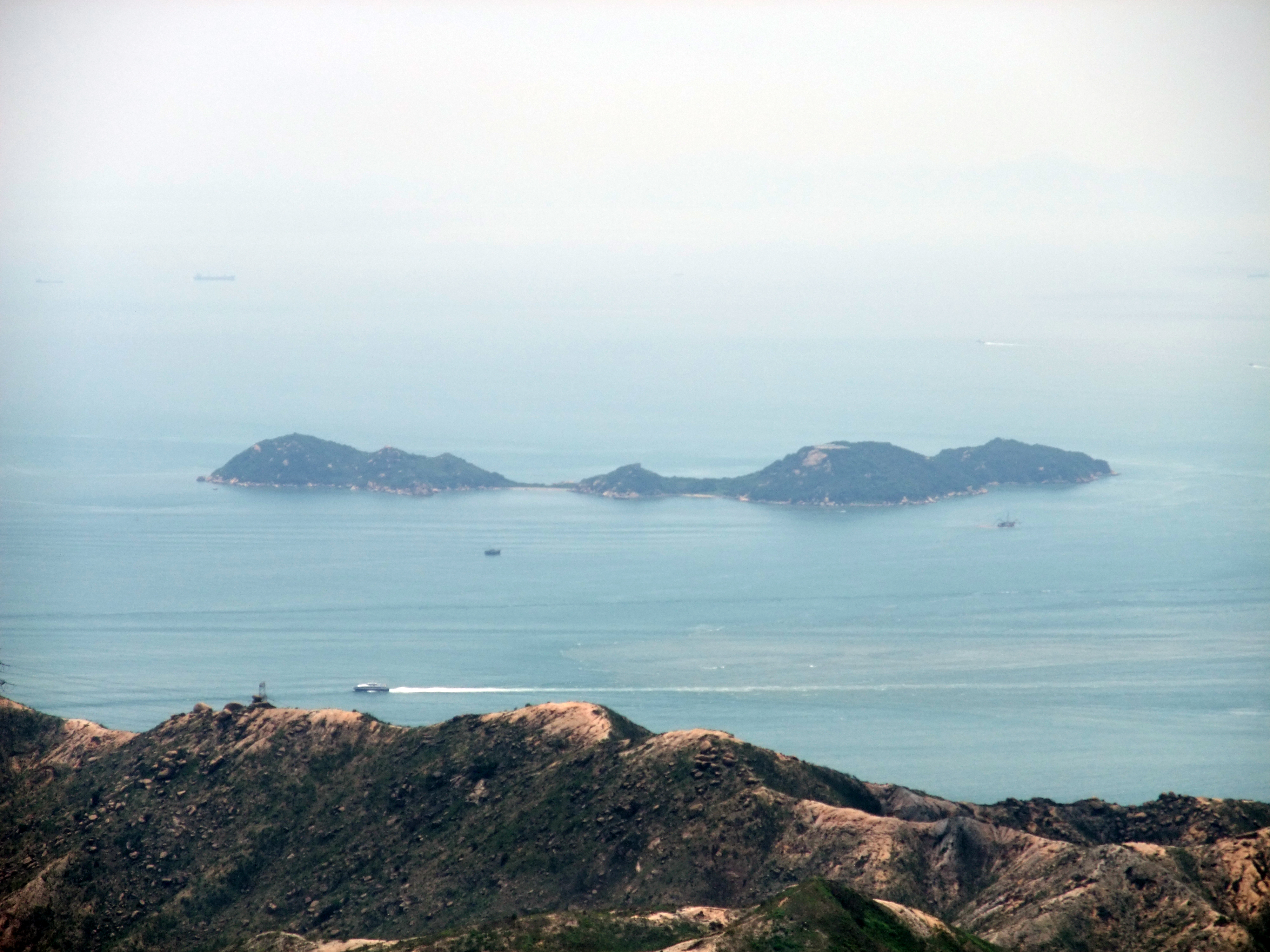 Photo of Lung Kwu Chau (seen from Castle Peak, Hong Kong)